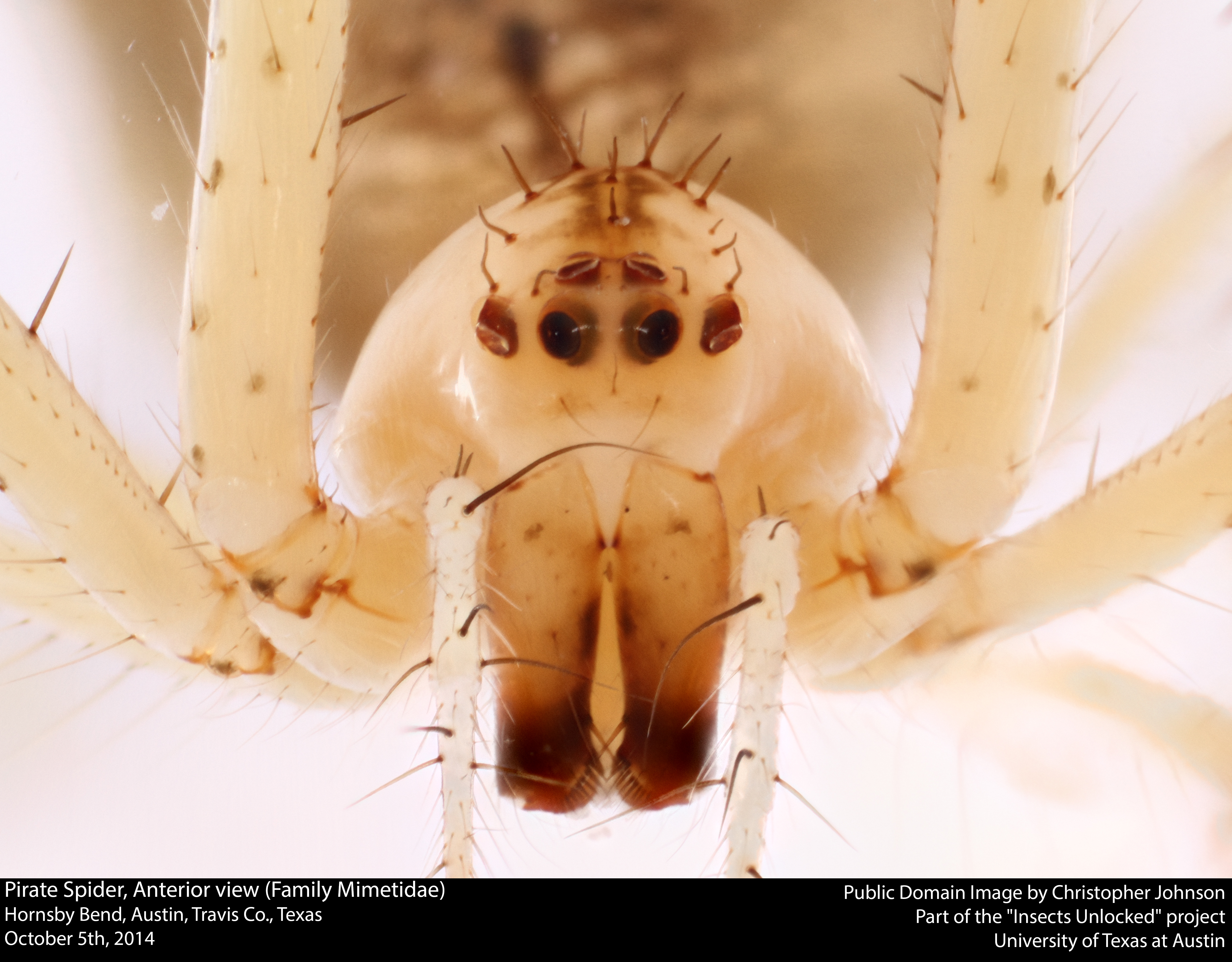 Pirate Spider, Anterior view (Family Mimetidae) Hornsby Bend, Austin, Travis Co., Texas October 5th, 2014 Public Domain Image by Christopher Johnson Part of the "Insects Unlocked" project University of Texas at Austin